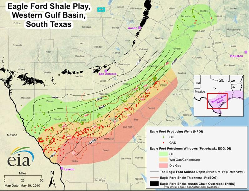 Map of the Eagle Ford Shale Play, Western Gulf Basin, South Texas, published by the U.S. Energy Information Administration (EIA), a division of the U.S. Department of Energy.